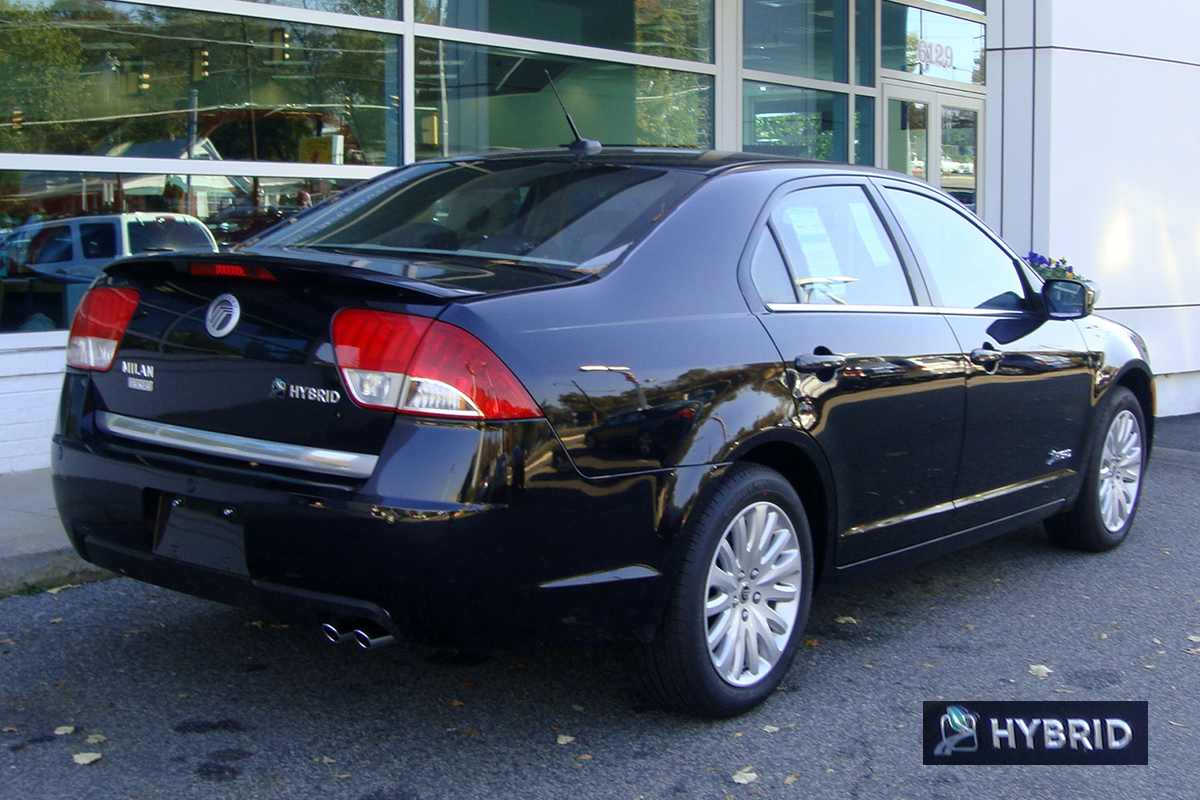 Mercury Milan Hybrid with Ford's road leaf badging used in all of its hybrid models, Alexandria, Virginia, USA